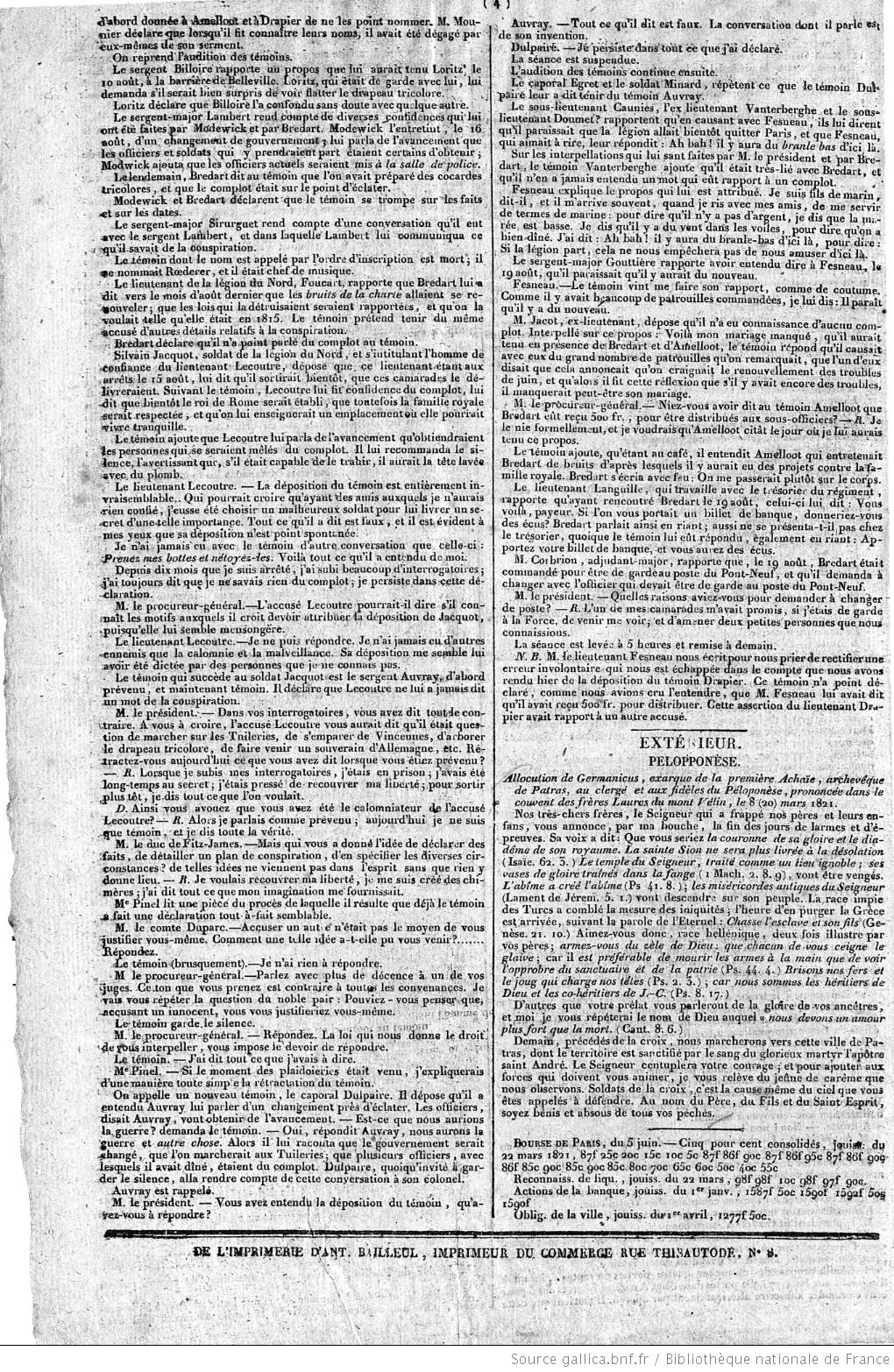 The fourth page of issue 157 of the French newspaper Le Constitutionnel of 6 June 1821 Bottom right: «Allocution de Germanicus, exarque de la première Achaïe, archevêque de Patras, au clergé et aux fidèles du Péloponèse, prononcée dans le convent des frères Laures du mont Vélin, le 8(20) mars 1821